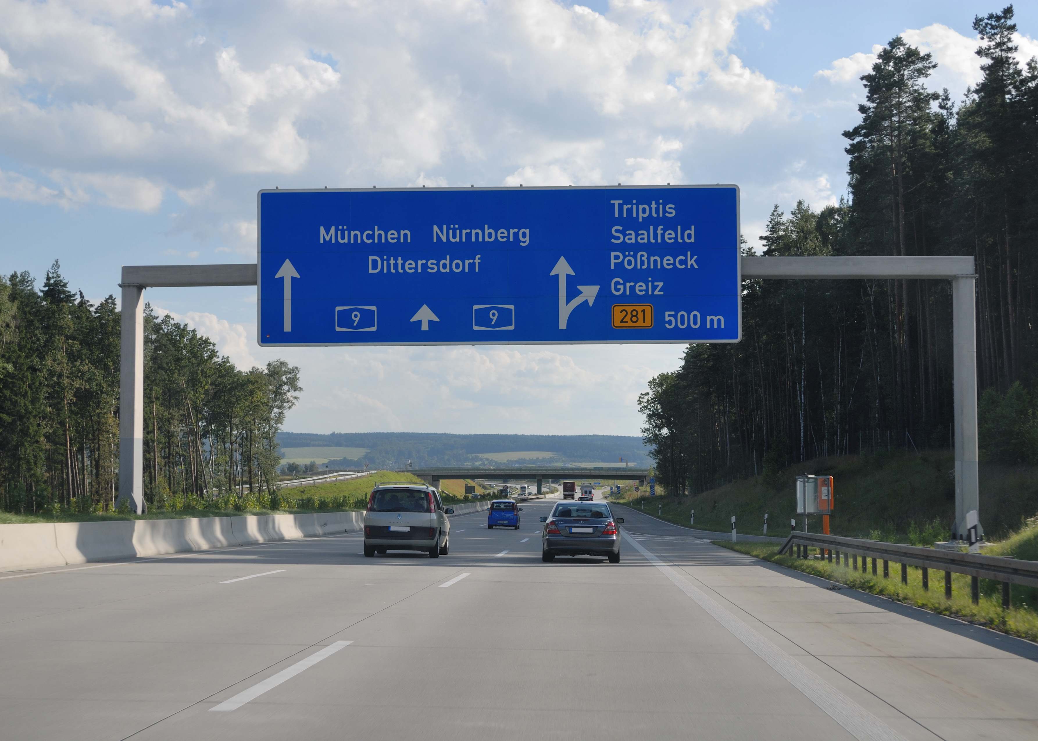 Road sign for the Triptis exit of A 9; road shot.